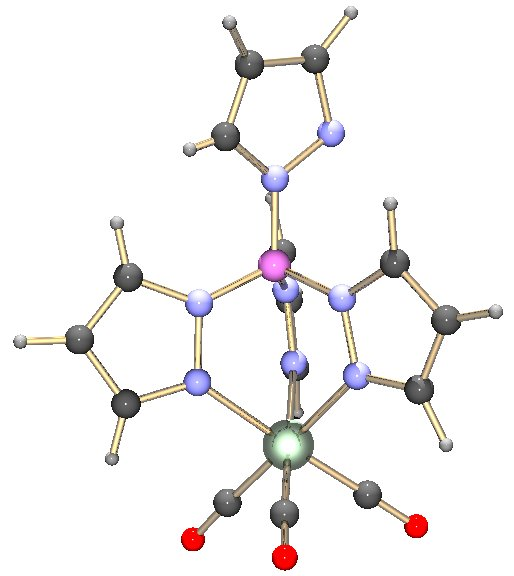 The Tp ligand corrected this time complex of Mn tricarbonyl